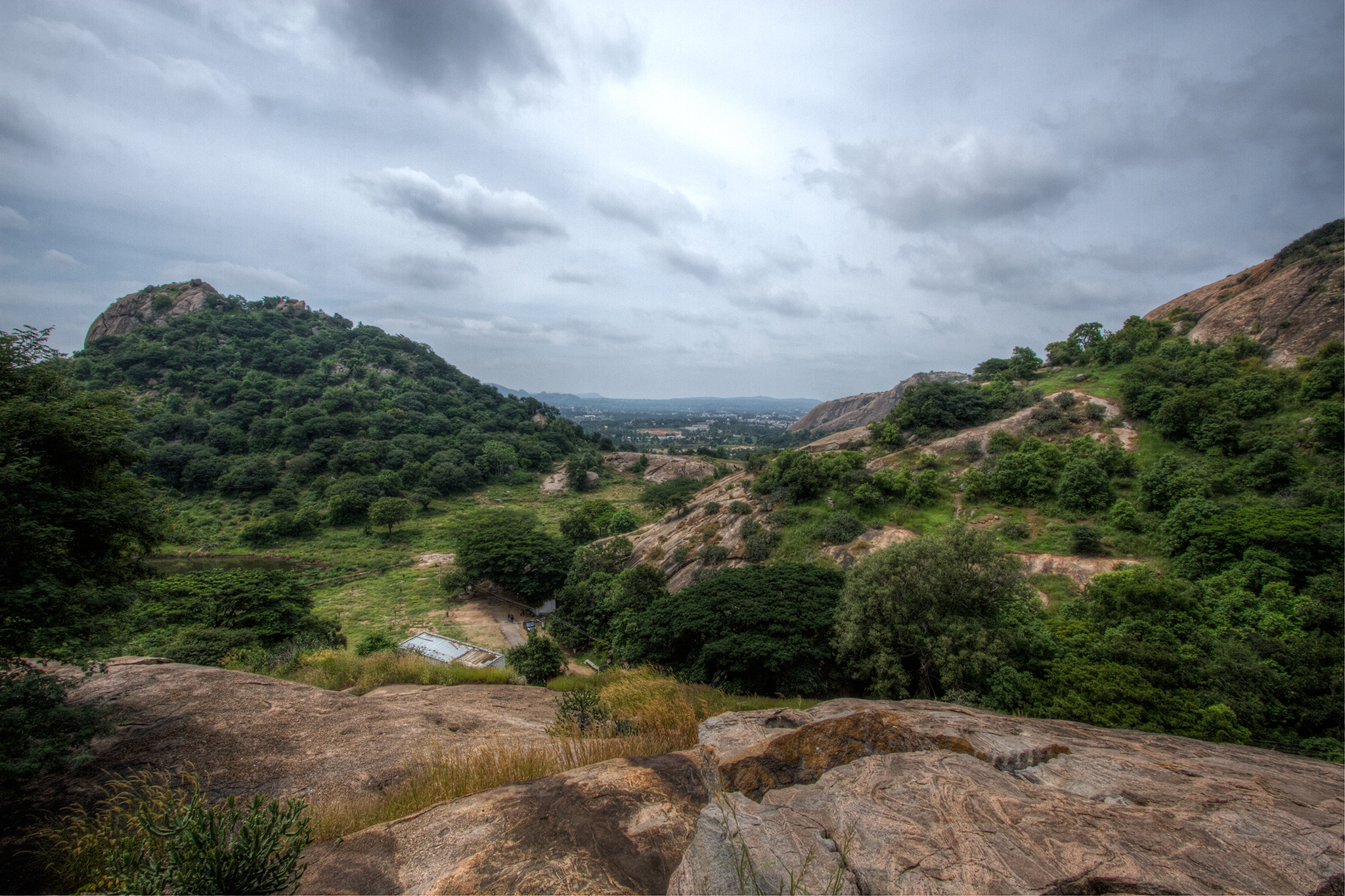 A view from Ramanagara Hills near Mysore. This place is located very close to Ramanagara, on the way to Mysore.